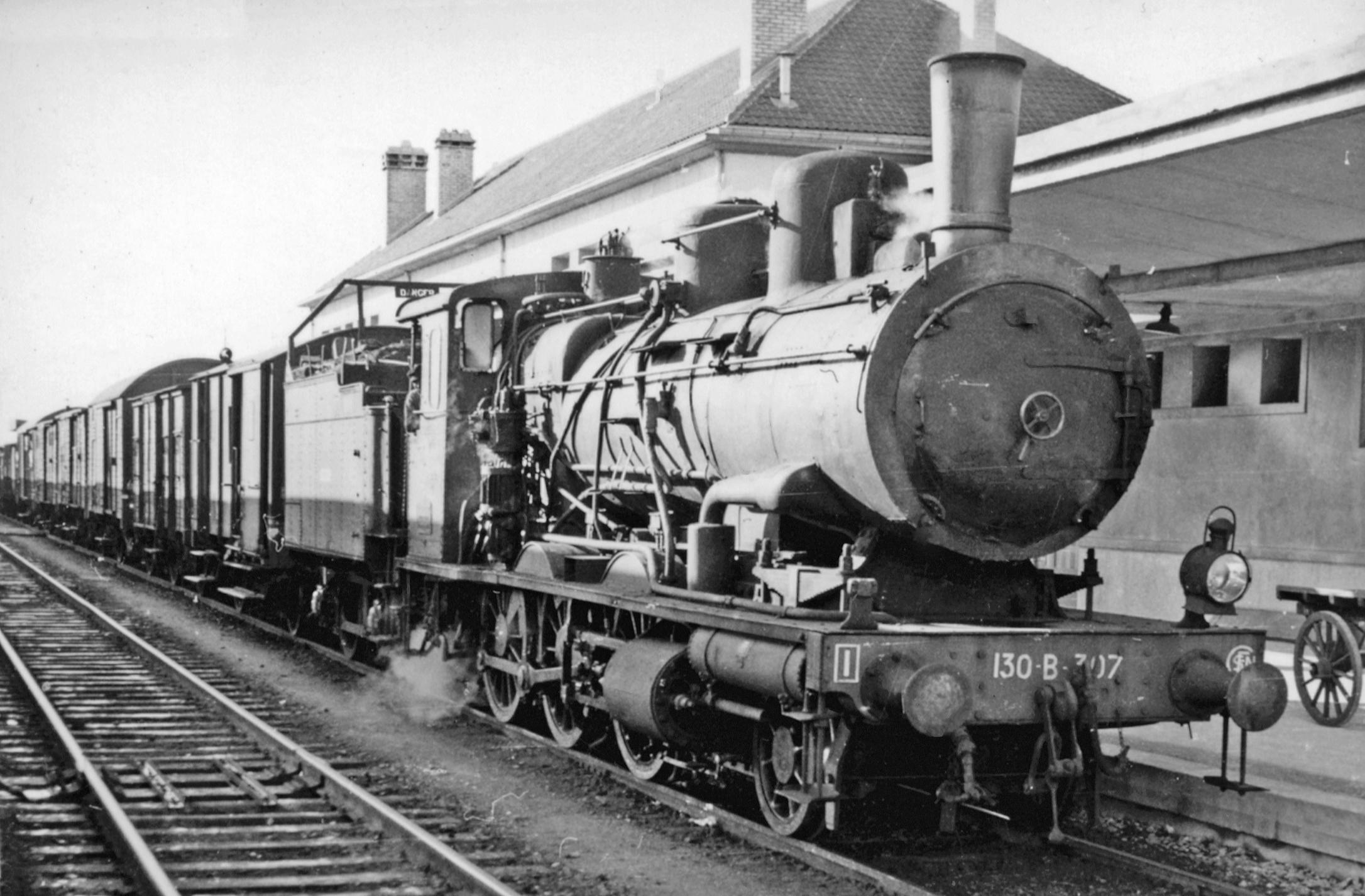 SNCF class 130-8 2-6-0 at Chaumont, 1958.